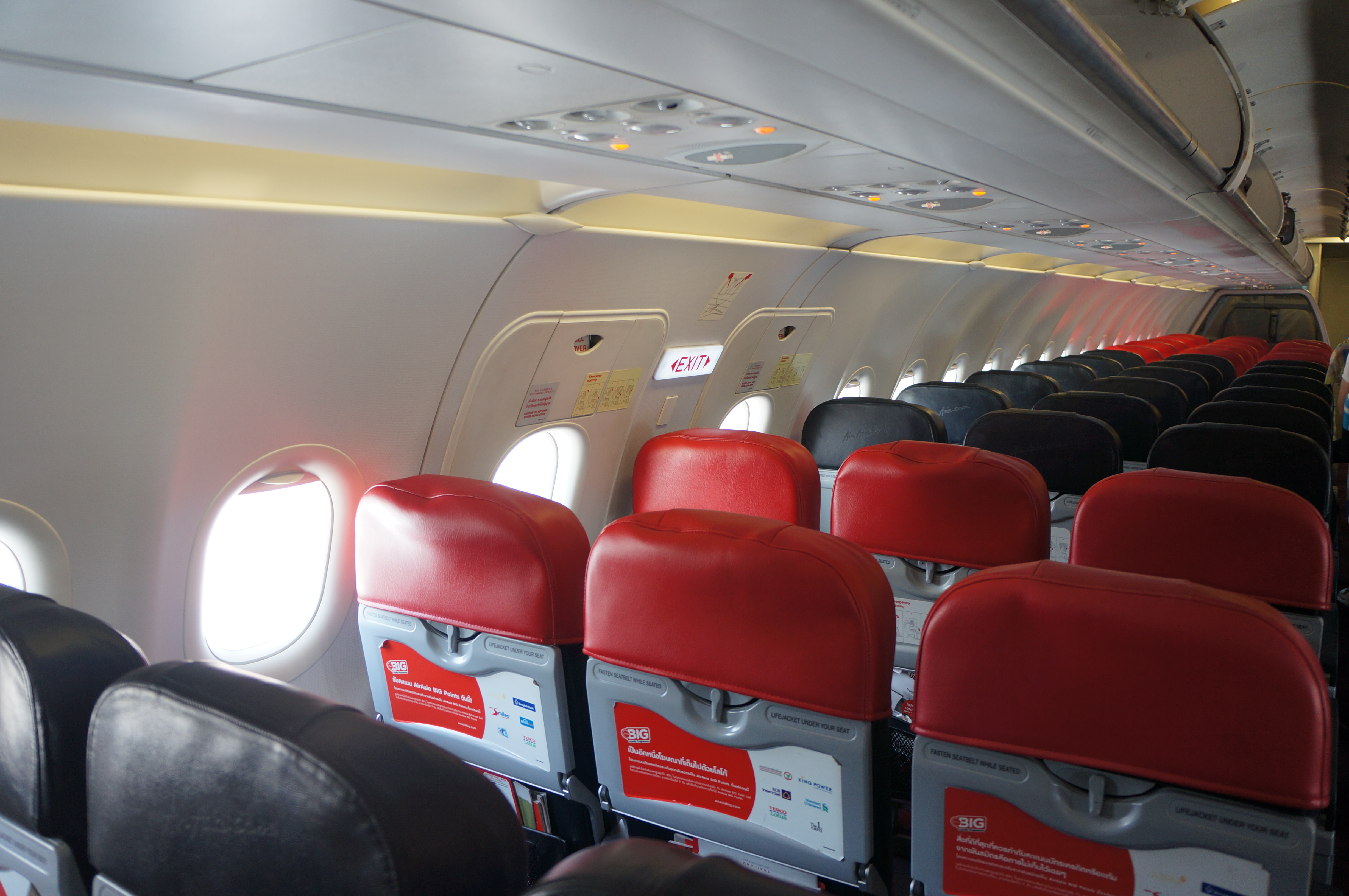 201701 Cabin Interior of FD, the seats in red are so called Business Class